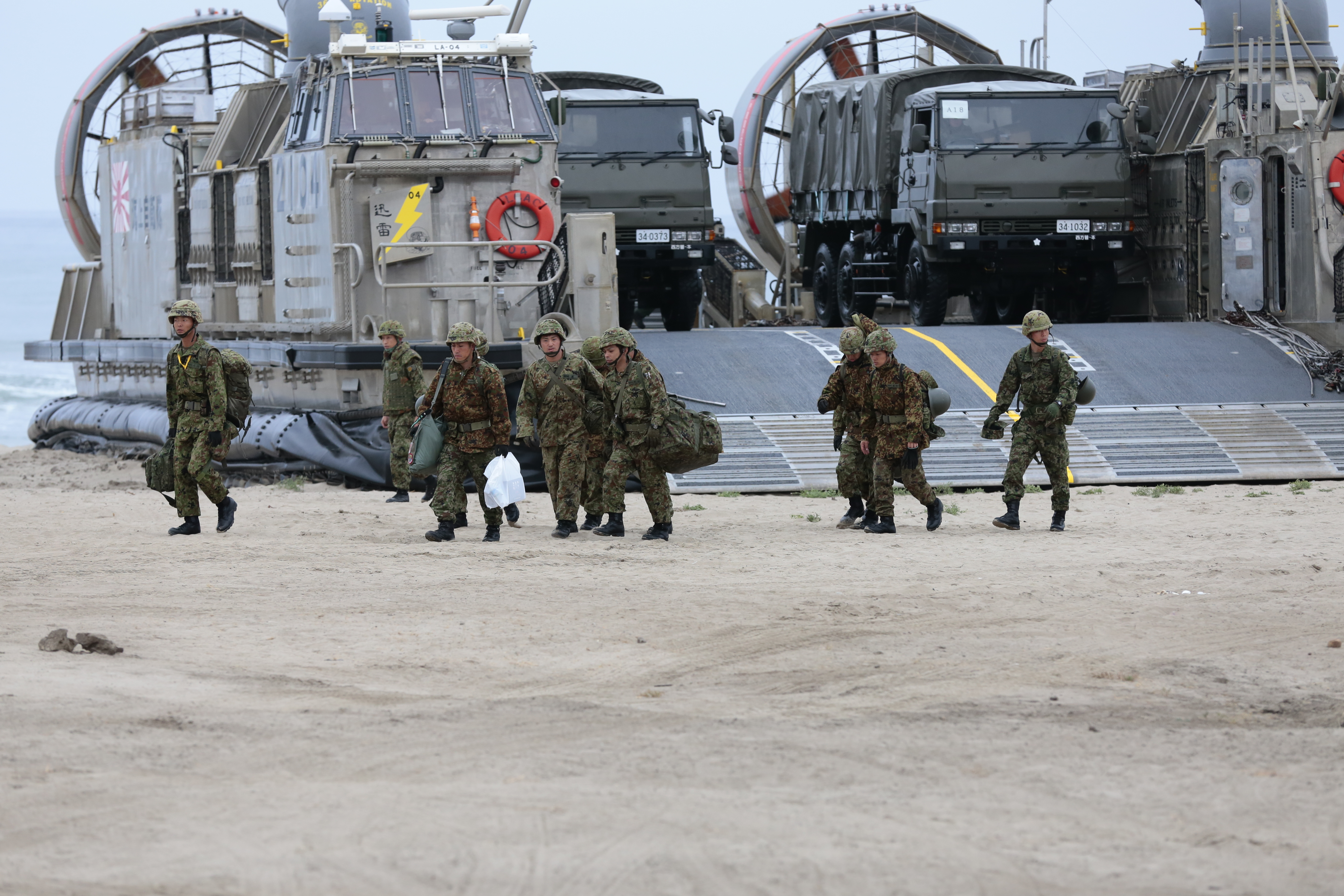 Japanese Ground Self-Defense Force soldiers unload weapons and vehicles from a landing craft, air cushion as part of exercise Dawn Blitz 2013 at Marine Corps Base Camp Pendleton, Calif., May 31, 2013. Dawn Blitz is a multilateral amphibious exercise designed to strengthen the skills of the U.S. Navy and Marine Corps as well as several partner nations.